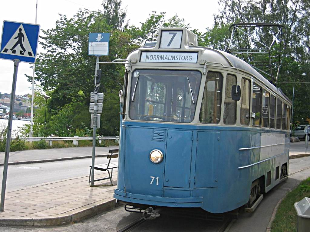 Stockholms Spårvägar Class A25G no. 71 at Waldemarsudde at Djurgårdslinjen in Stockholm. This tram is originally from Malmö but have been at Djurgårdslinjen since 1992.